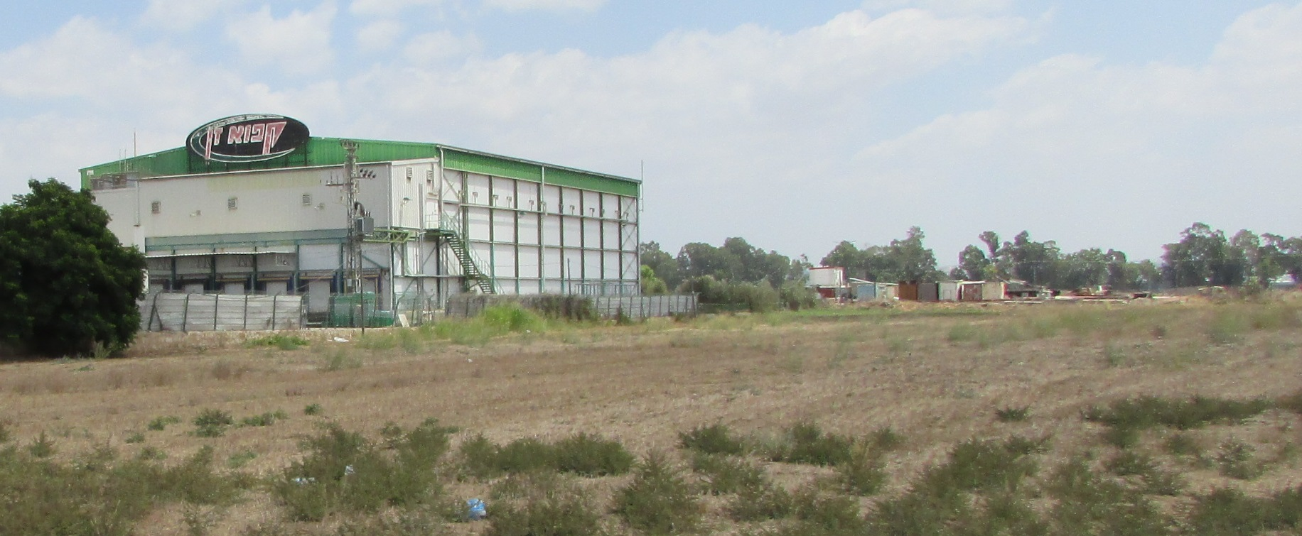 Fabricating and transporting vegetables. Location: Petah-Tikva, ha-Yarkonim street.